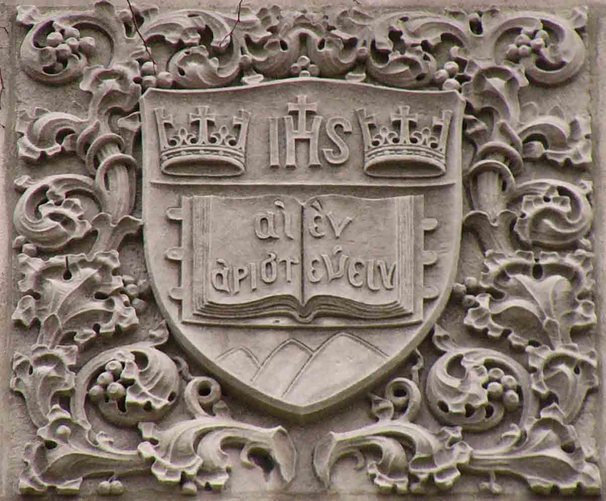 Engraving of BC motto (Ever to Excel) on East side of Bapst library